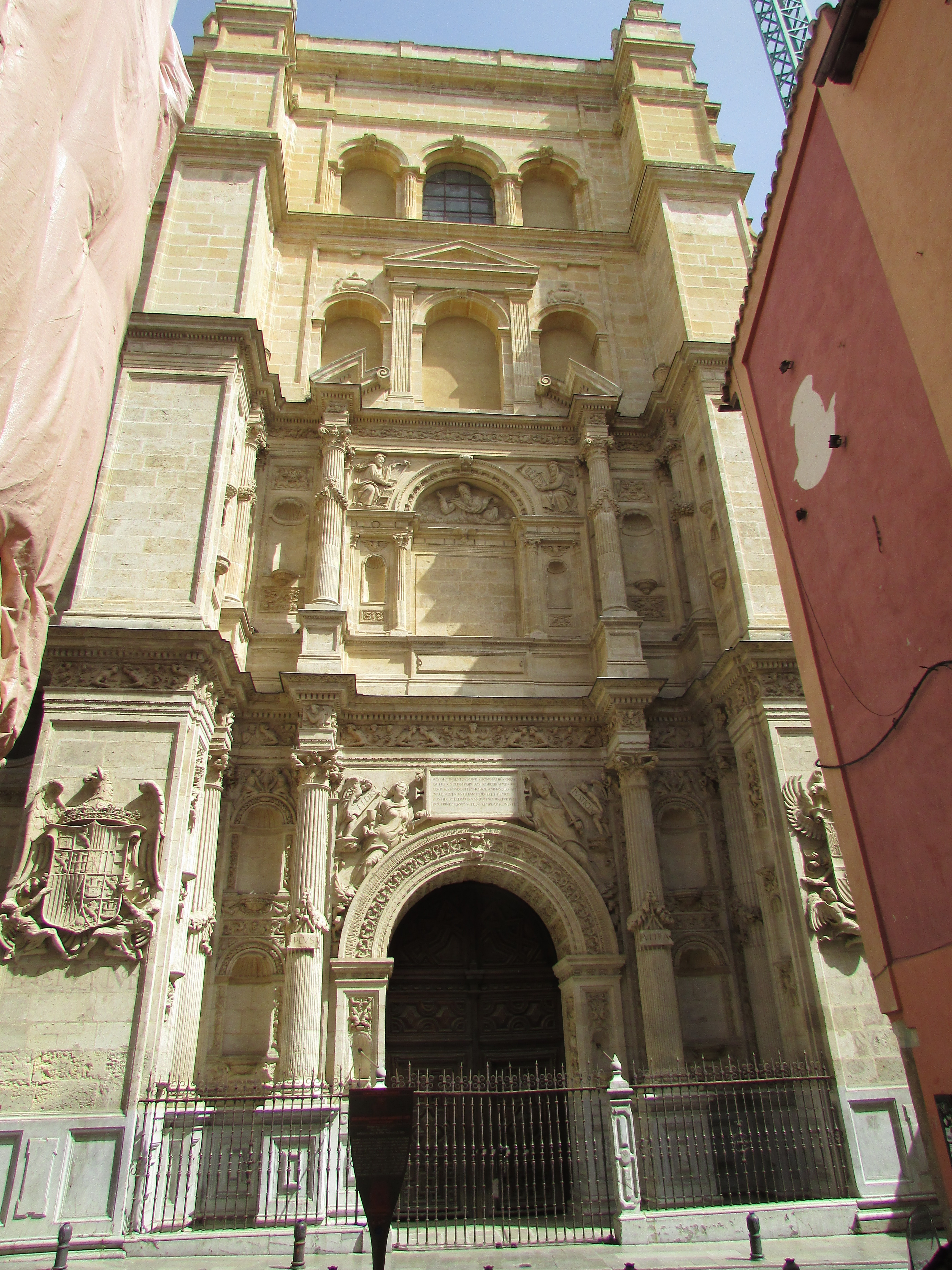 Looking at the Door of Forgiveness (Puerto del Perdón), on the north west elevation of Granada Cathedral on Calle Cárcel Baja within the city of Granada, Andalusia, Spain.